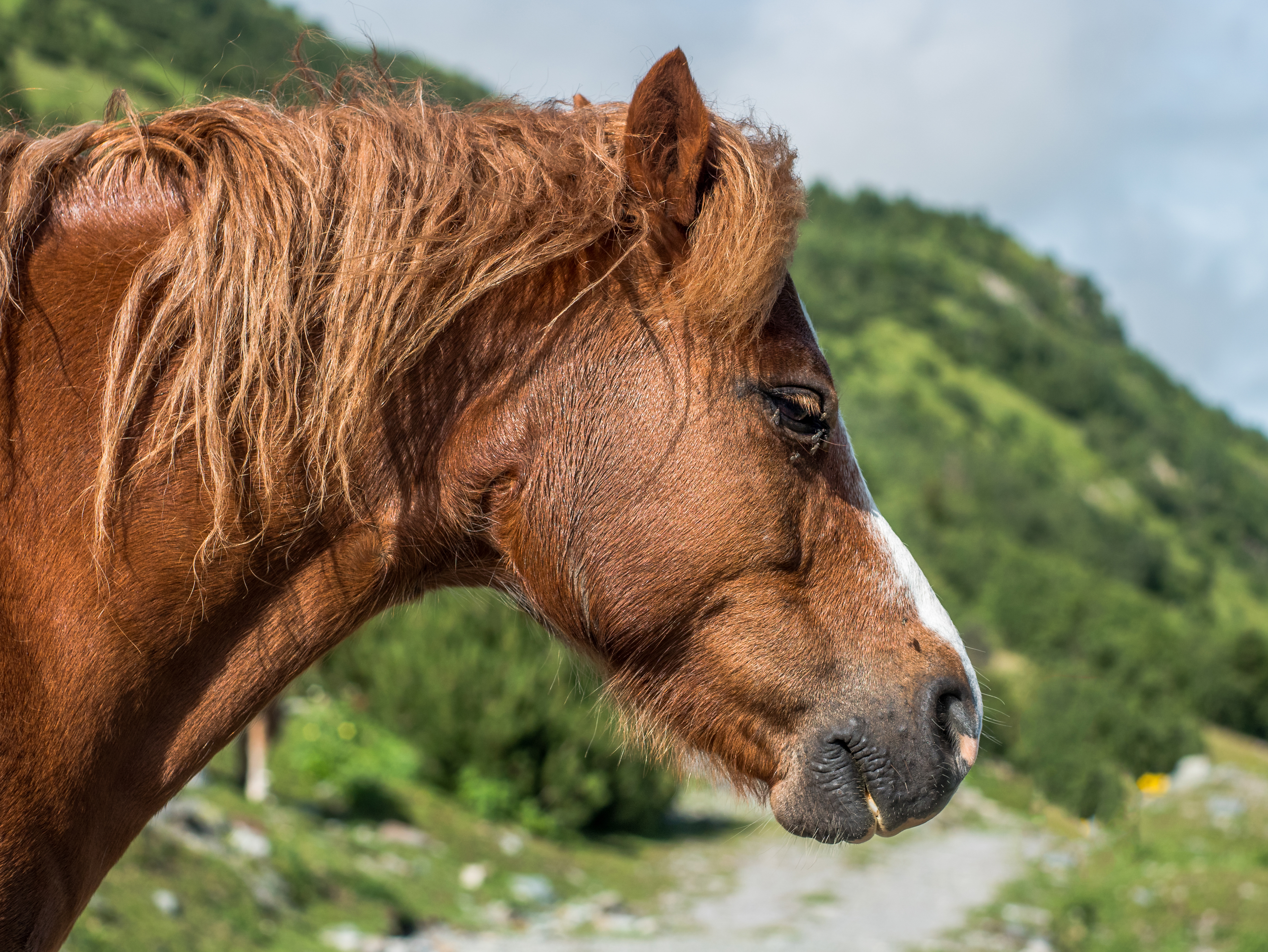 Horse head (Welsh Pony) near Galtür. Paznaun, Tyrol, Austria